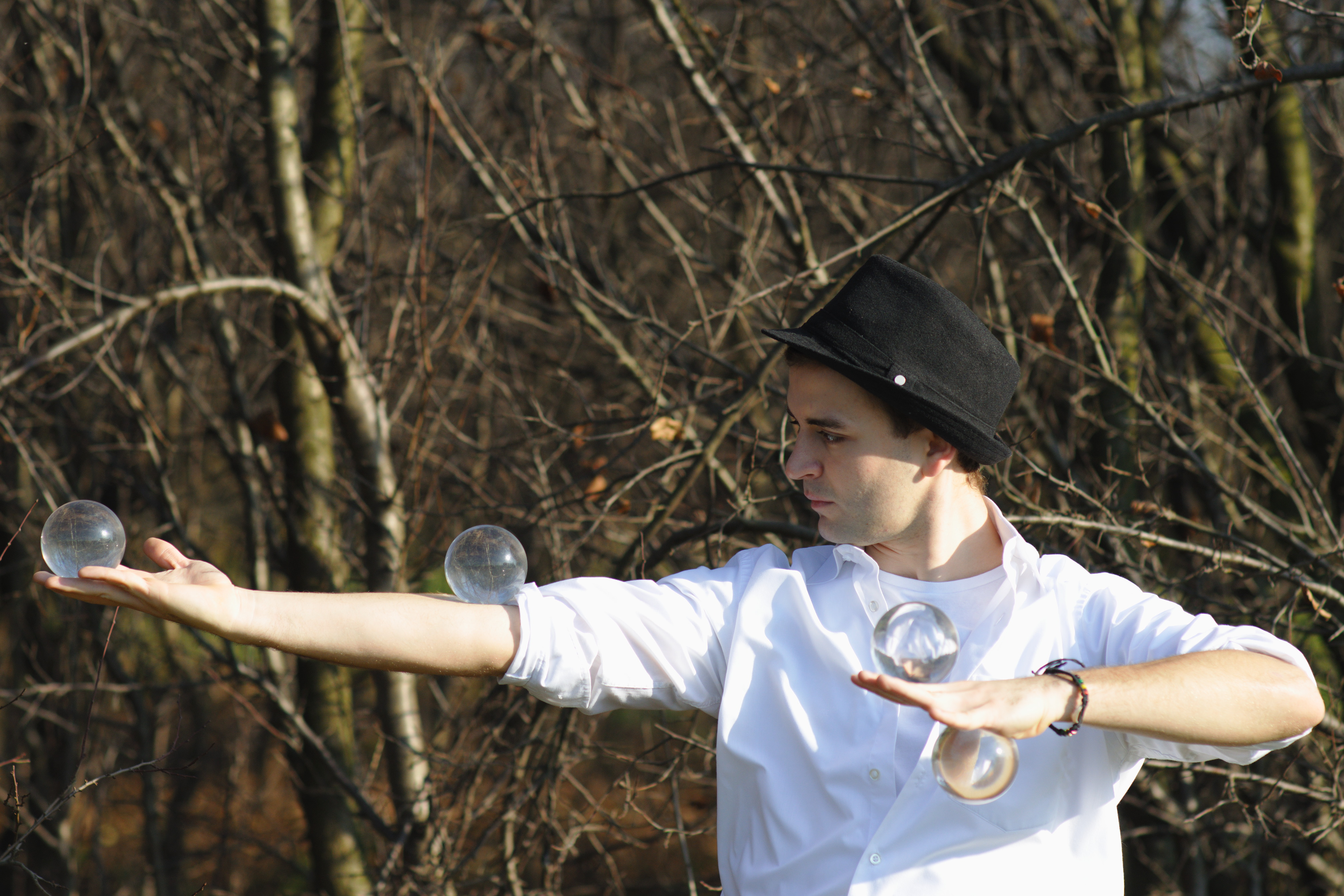 Contact juggling using 4 balls